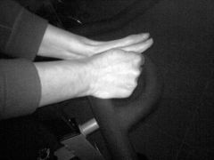 Hand position for indoor cycling